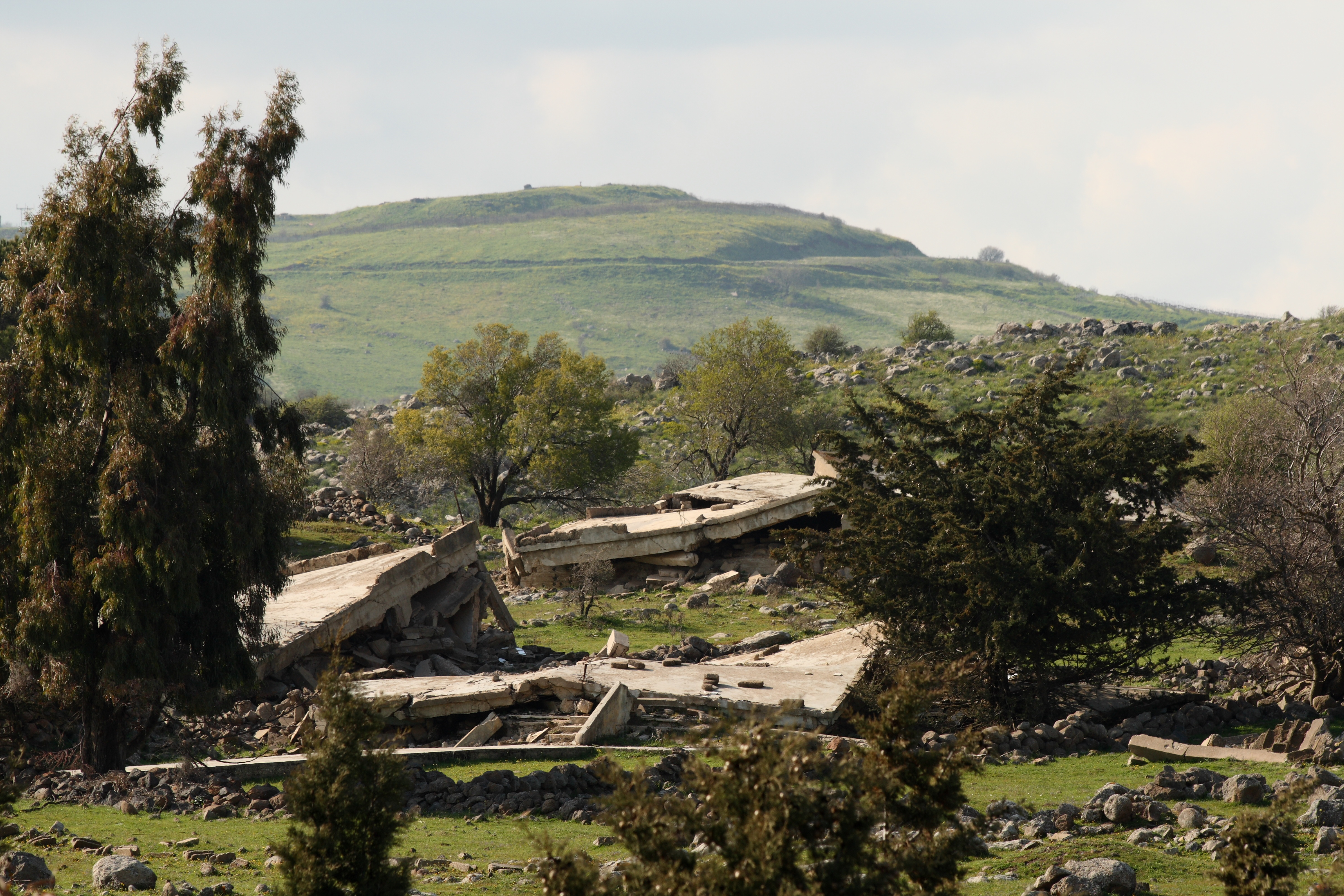 These homes would have been bulldozed by the Israelis, and are preserved as historical artefacts.